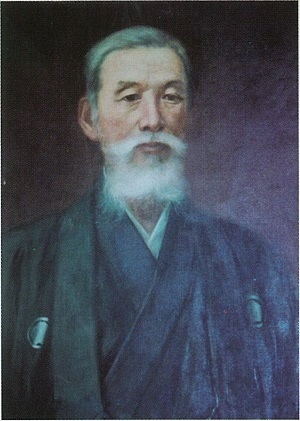 Okada Ryōichirō's portrait